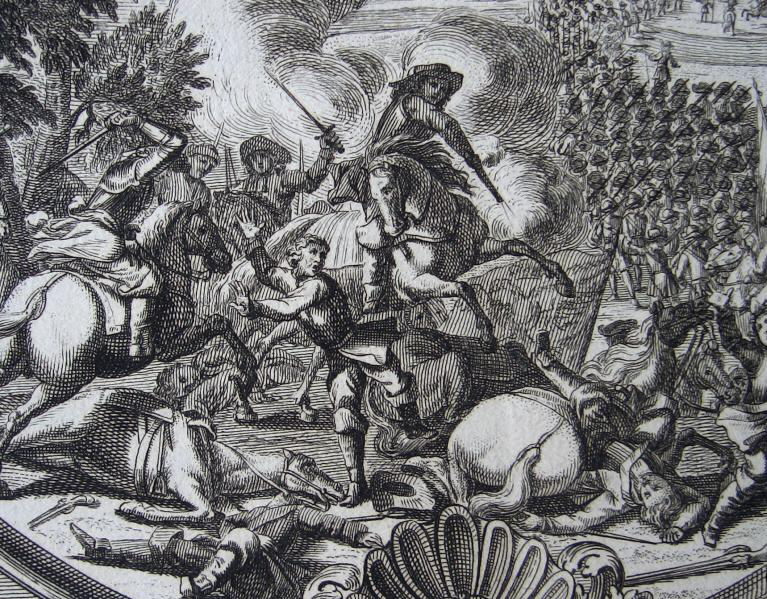 Detail of an old print showing the fight between French and Austrian Cavalry during the Battle of Carpi in 1701 during the War of Spanish Succession